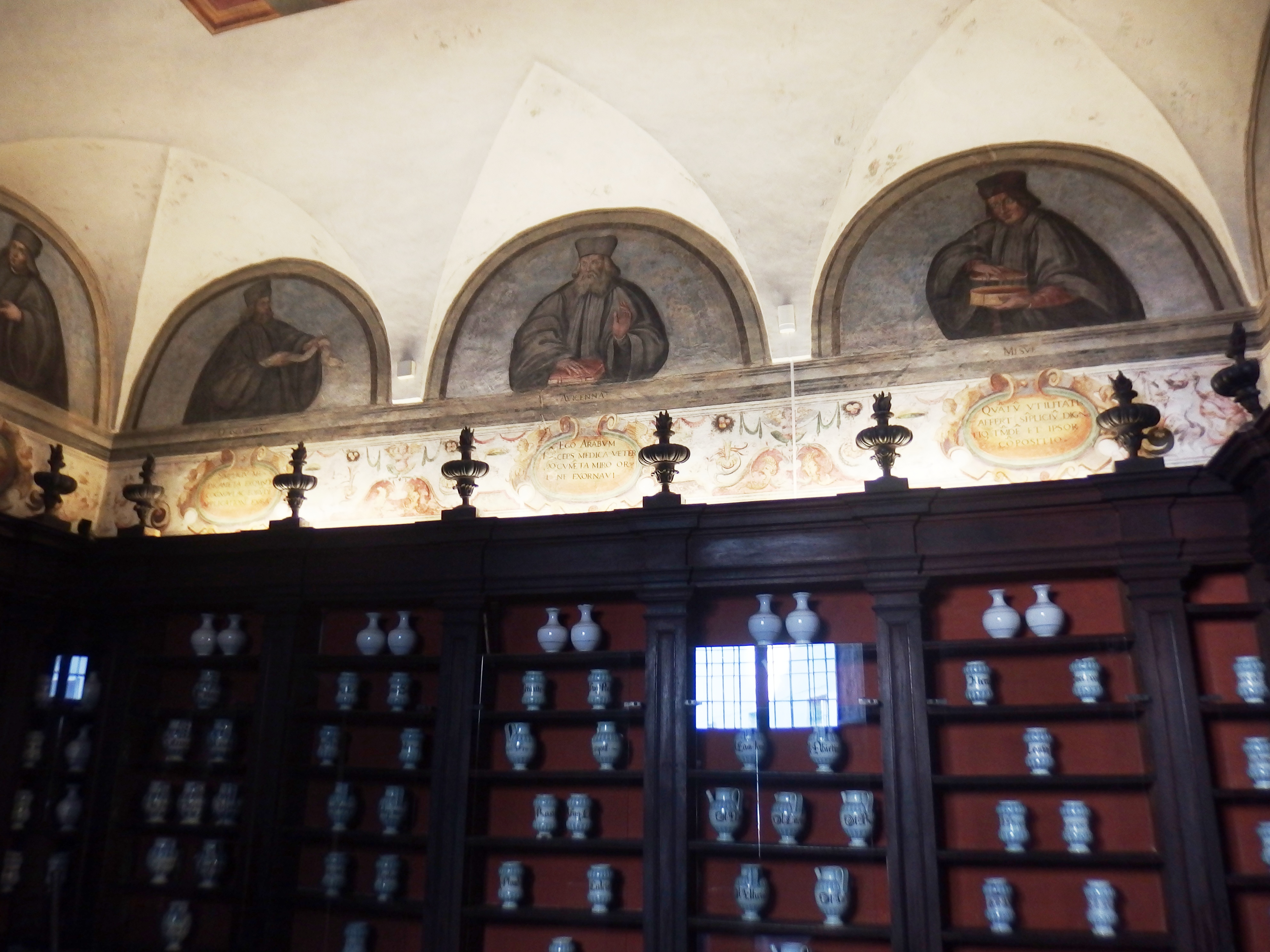 Parma, Italy. Ancient pharmacy at the Monastery of Saint John the Baptist.